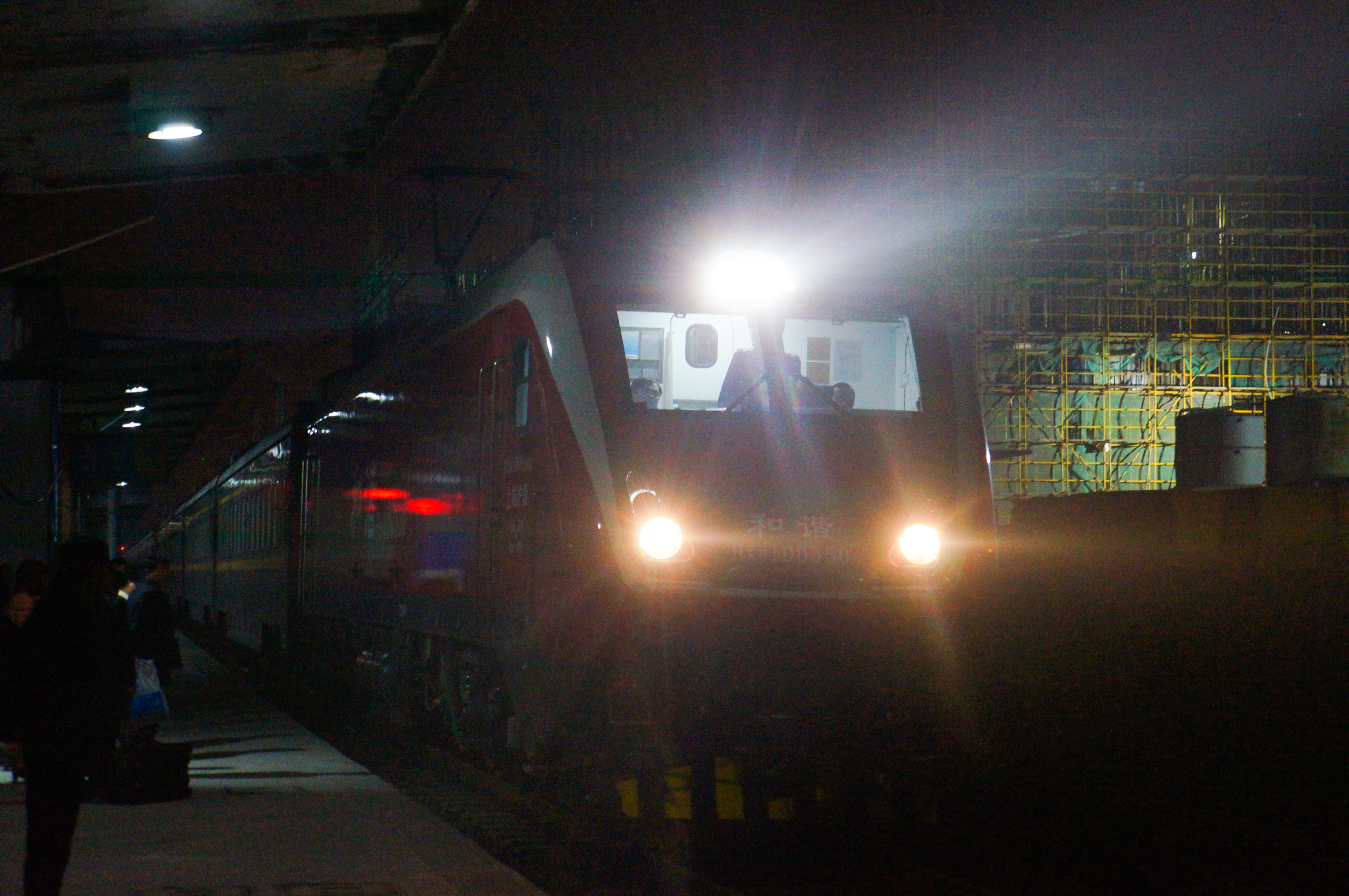 201702 HXD1D-550 hauls Z196 enters into Wuxi Station